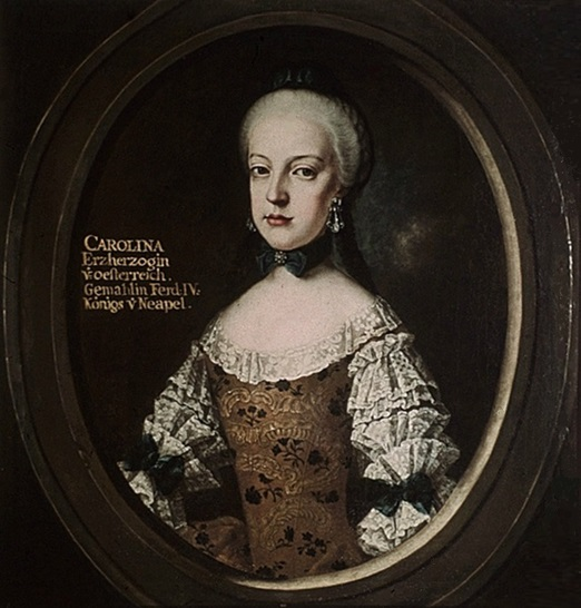 Portrait of Maria Carolina of Austria